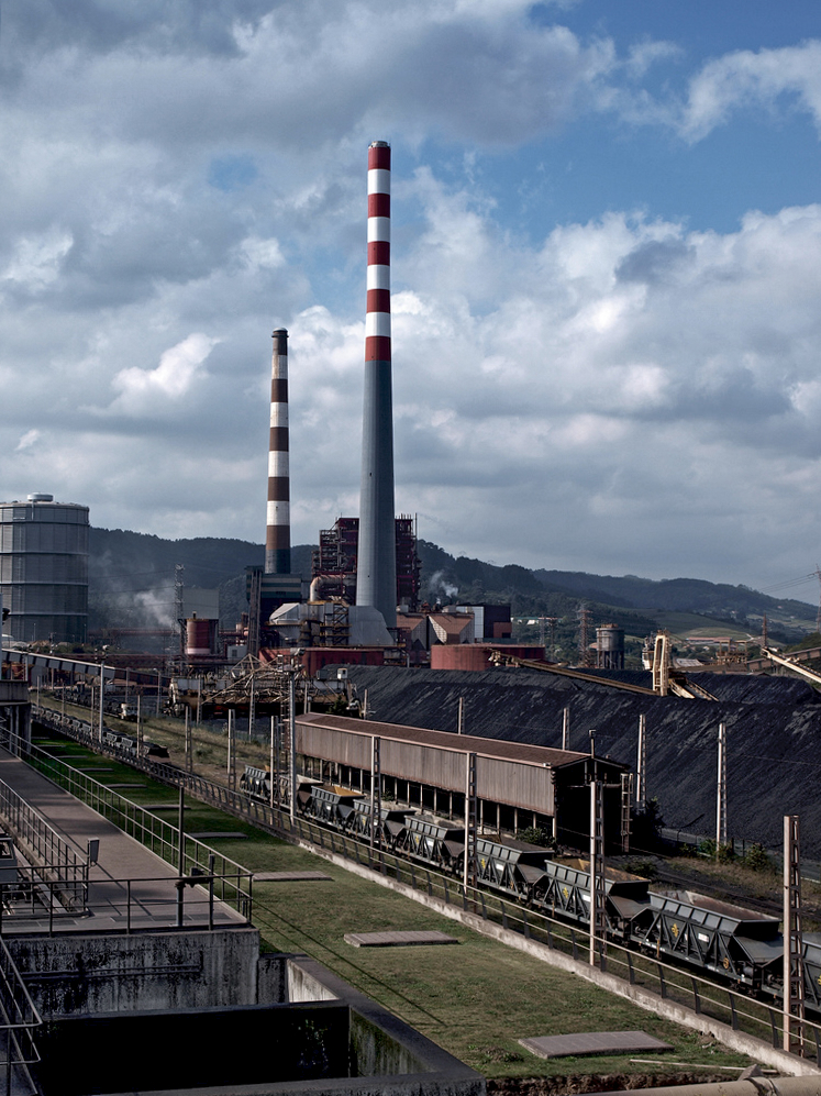 Chimeneas